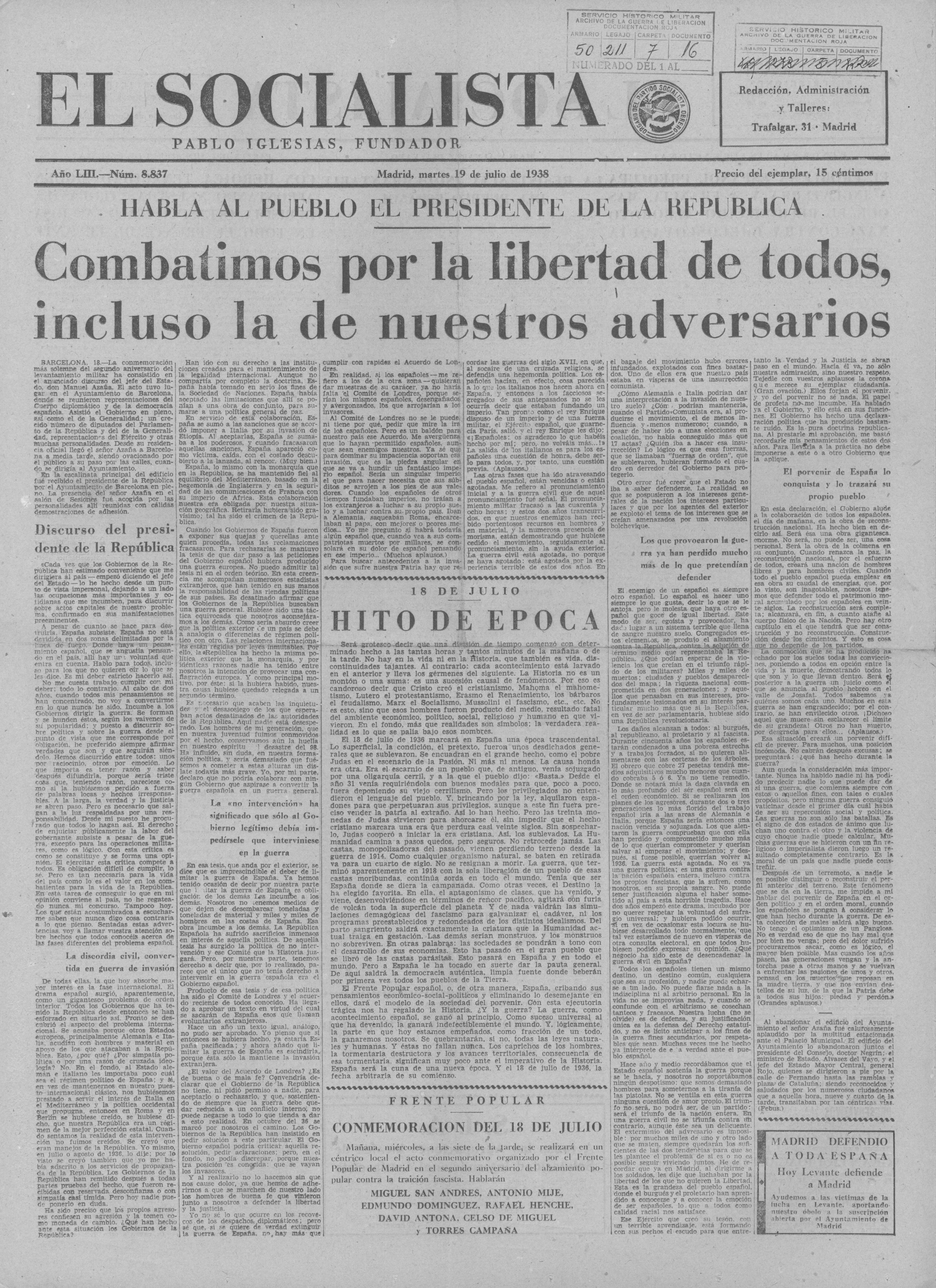 Front page of the spanish newspaper El socialista, 19th july 1938, that covers the speech of the president of spanish republic Manuel Azaña, also known as "Paz, piedad y perdón".